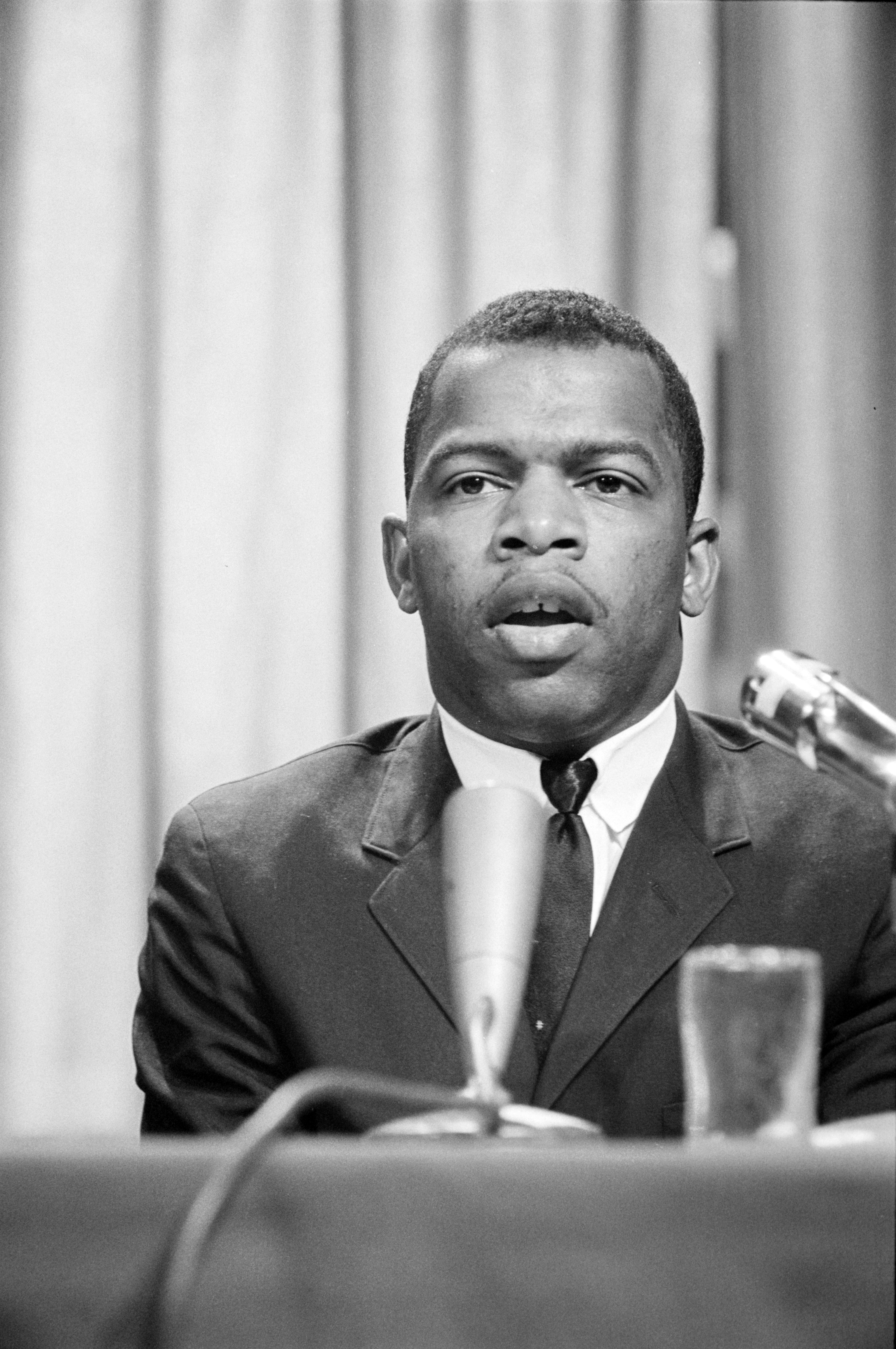 John Lewis, American civil rights activist and (future) member of the House of Representatives (D-Georgia), at meeting of American Society of Newspaper Editors.